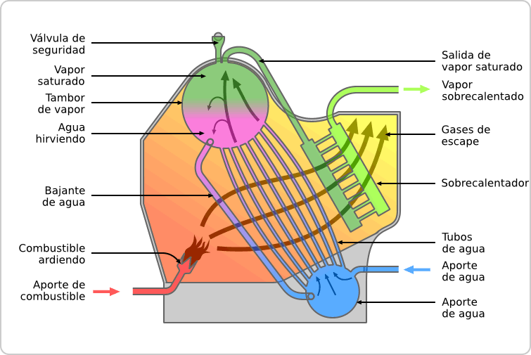 Schematic diagram of a water-tube marine-type boiler. Spanish translation.